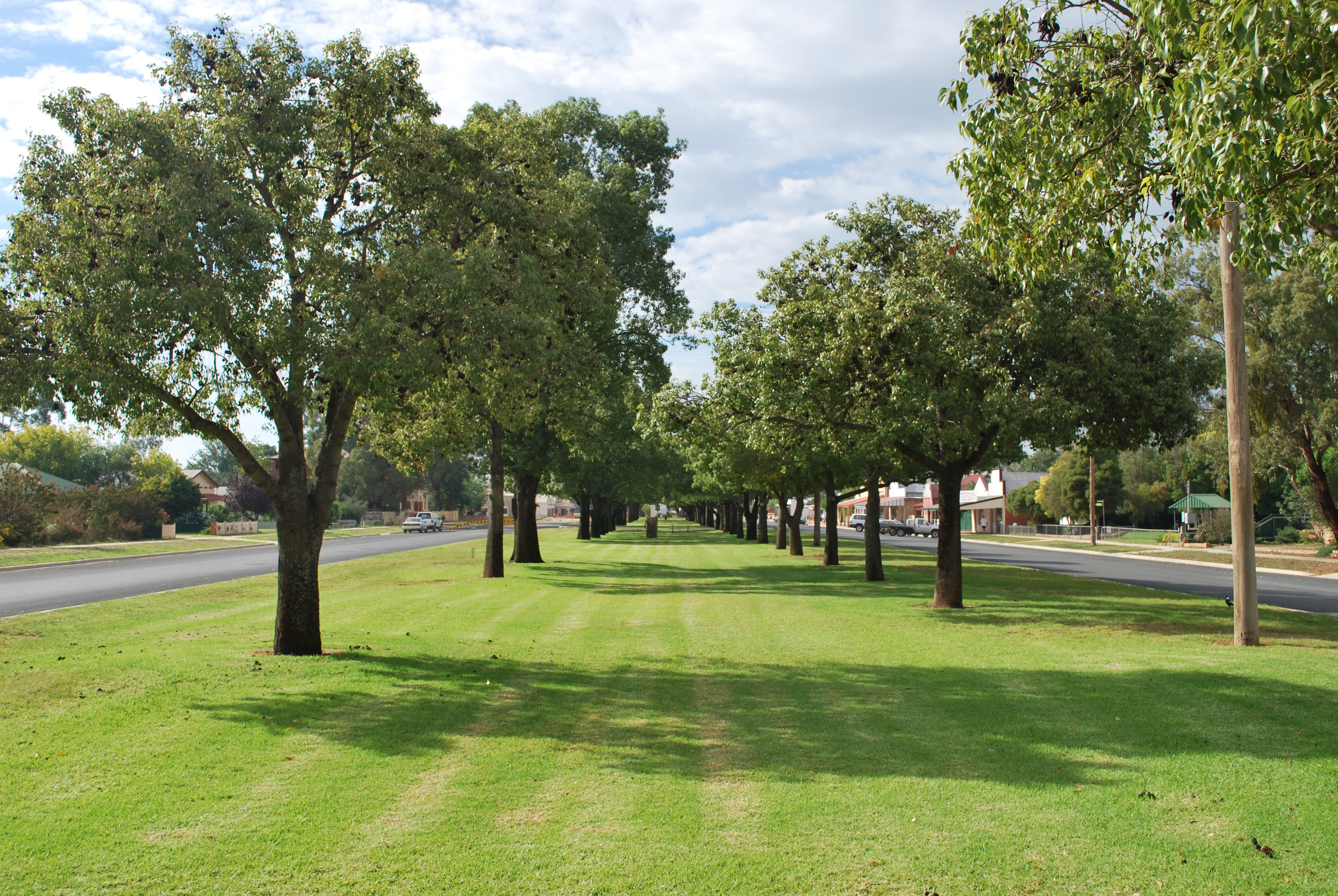 A park in the middle in the street at The Rock, New South Wales